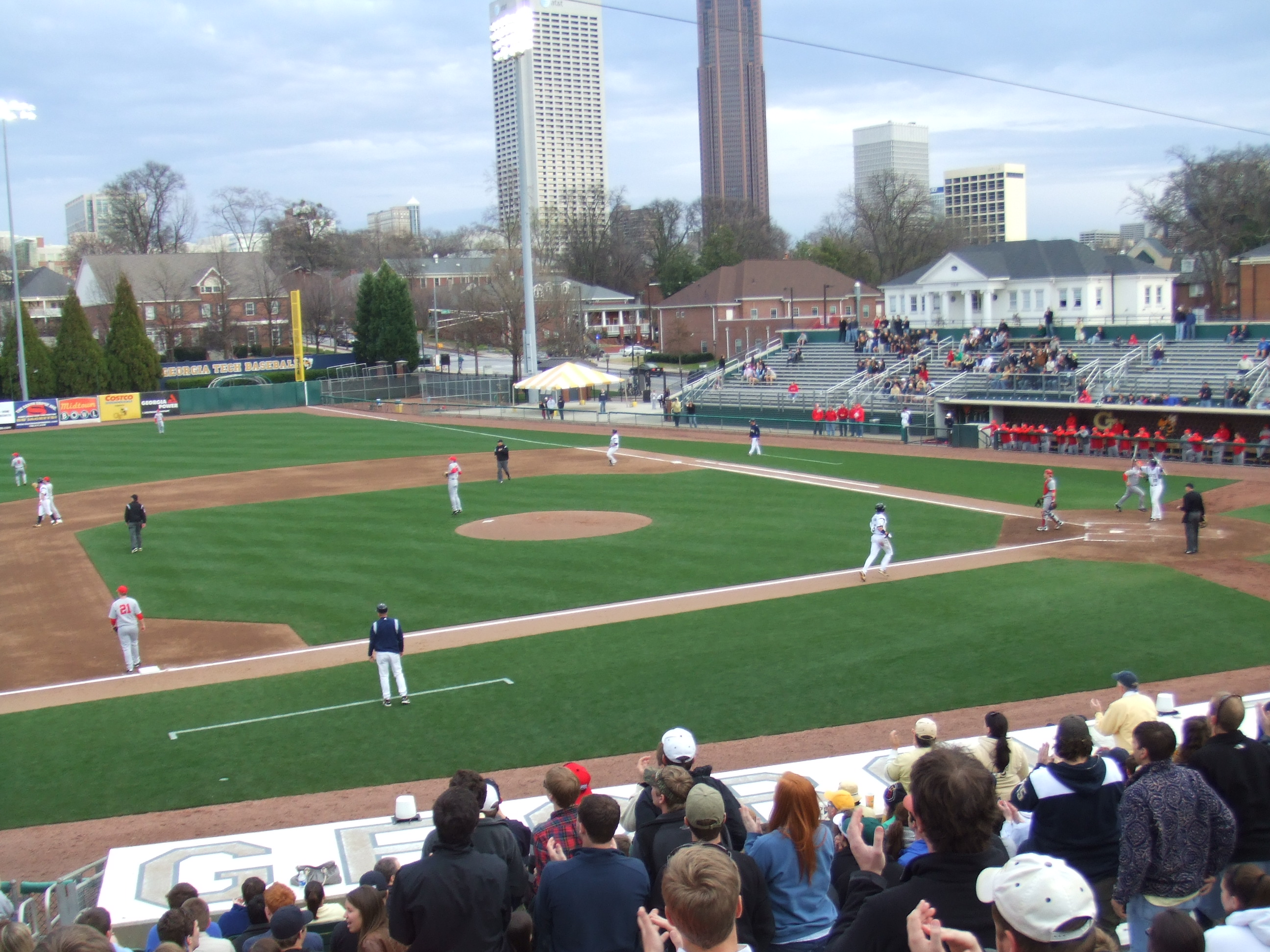 Russ Chandler stadium, Georgia Tech vs. Ohio State